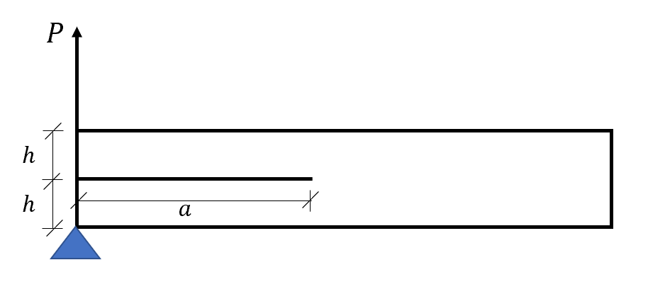 A Double Cantilever Beam Specimen with Thickness B (not shown)